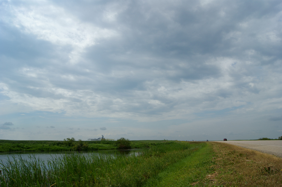 Saskatchewan Highway 41